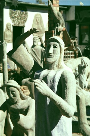 Figures in the garden of a house in Nieu Bethesda, South Africa.